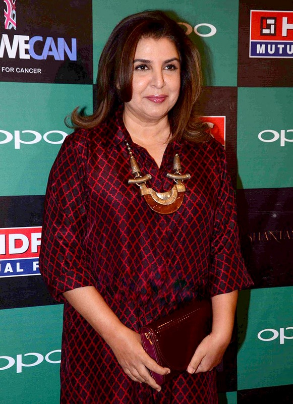 Farah Khan at YOUWECAN launch